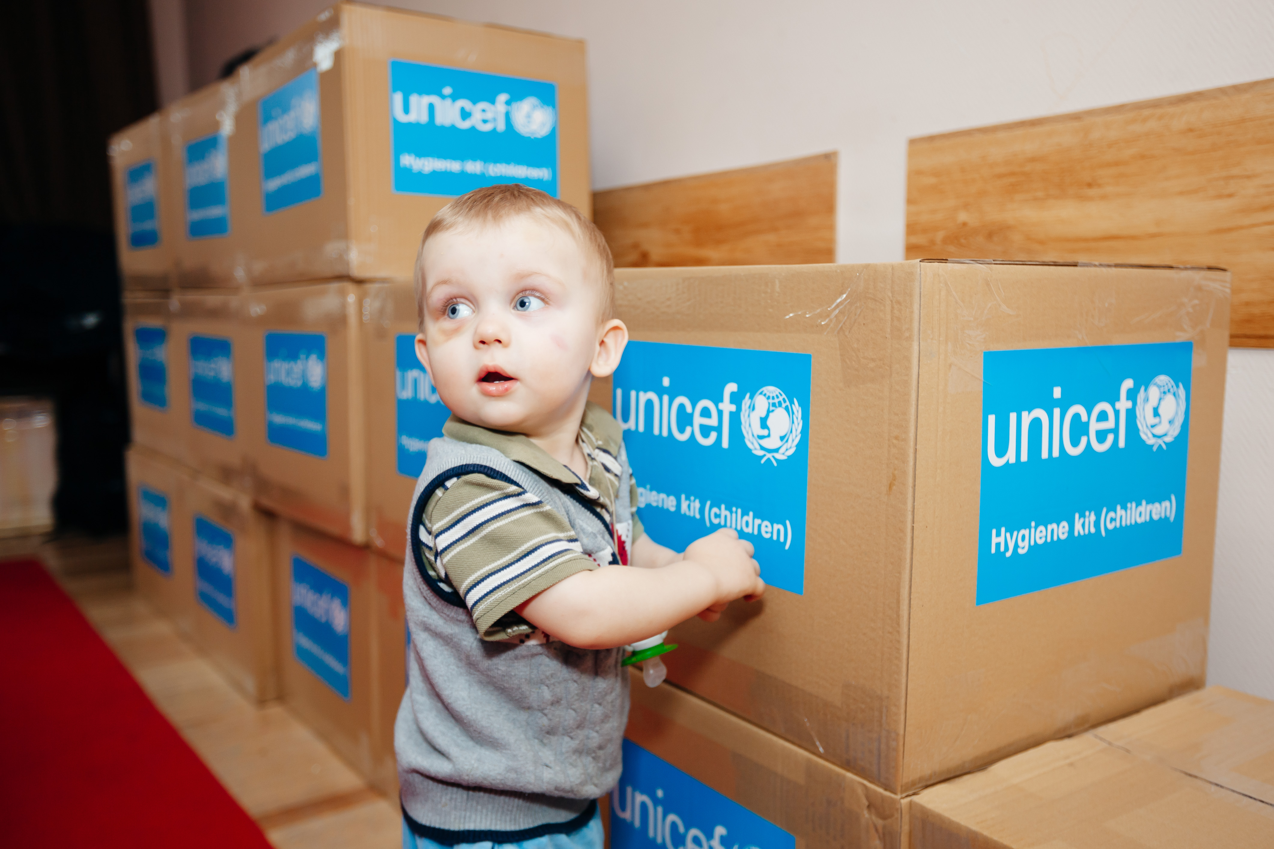 UNICEF assists the most vulnerable children, affected by conflict in Ukraine, with humanitarian aid. Hygiene supplies are one of the essential things to keep child healthy. (c) UNICEF/Ukraine/2015/A.Krepkih